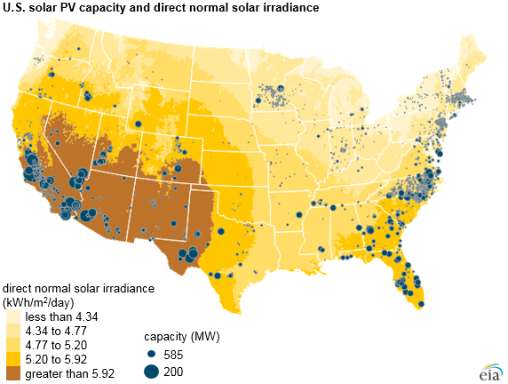 Sunnier locations, such as in the southwestern United States, have more hours of direct, high-angle sunlight per year, and as a result, the solar PV modules can capture more sunlight. June 12, 2019